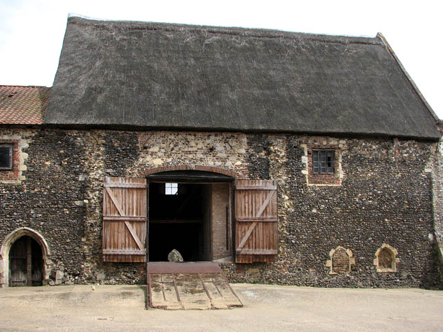 Langley - remains of the abbey Langley, a Premonstratensian abbey, was founded in 1195 and dissolved in 1536. The buildings were surrounded by a wet ditch which had three entrances. Some of the buildings are still standing and are included in the present farm buildings. Excavations in 1921 revealed that the cruciform church had a tower at the West end. The presbytery was flanked by chapels extending east from the transepts, and an additional chapel to the north of the north transept. The claustral buildings were arranged to the south and included the sacristy, chapter house, parlour, dorter and its sub-vault and a warming house in the east range, the frater in the south range, and cellarium in the west range. A gatehouse adjoined the north part of the cellarium. The stable, part of the gatehouse, the cellarium with its vaulted undercroft to the north, parts of the west and north walls of the Chapter House and the south-east corner of the infirmary can all still be seen, with the stable and cellarium presently used as farm buildings. The site is situated on private land and was accessed with kind permission of the landowner.